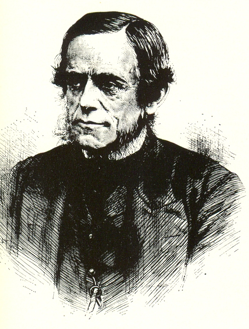 British Captain and Naval Architect Cowper Phipps Coles. 1819-1870.